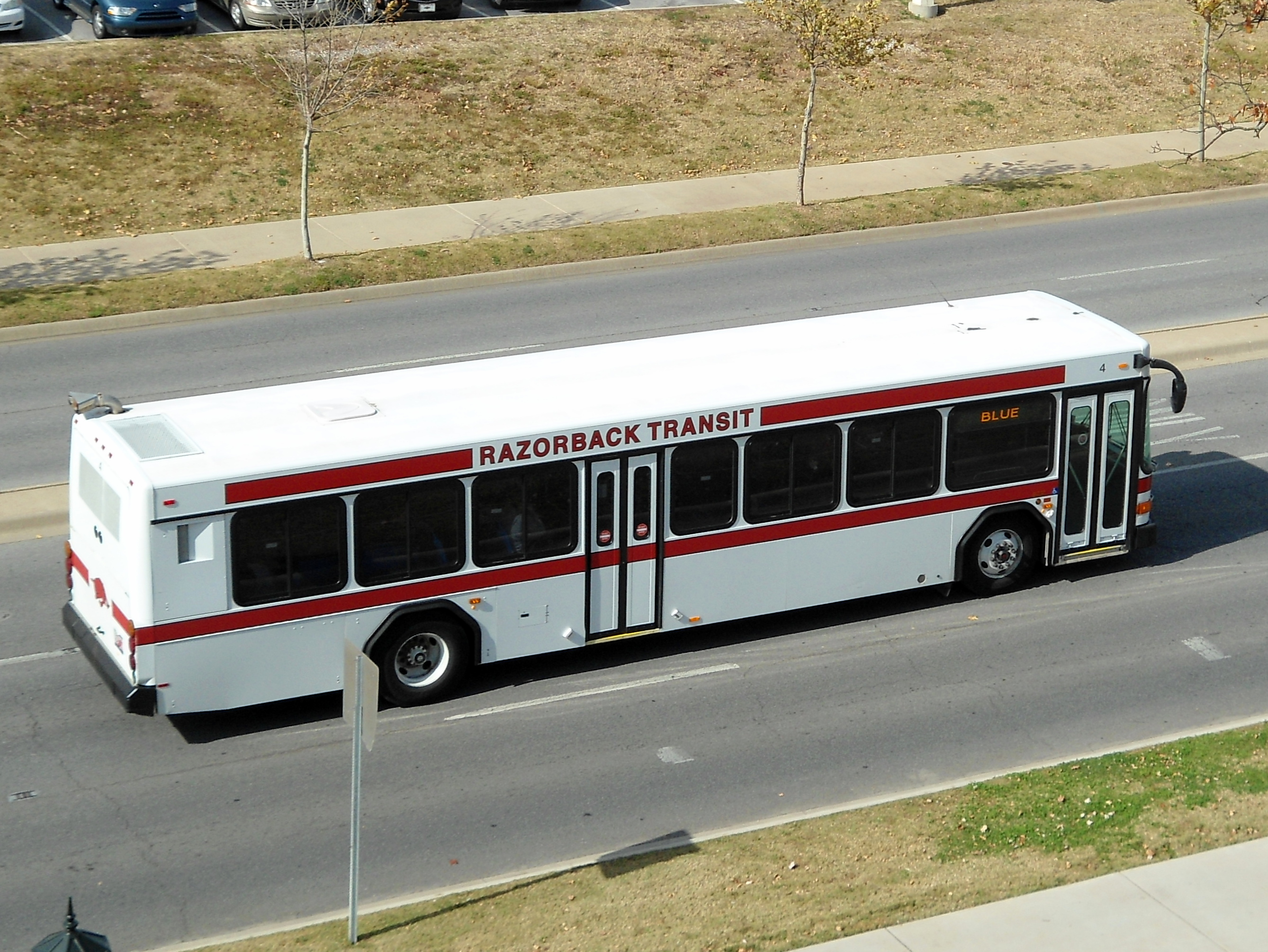 A Razorback Transit Blue Route bus travels north on Garland Avenue in Fayetteville, Arkansas.